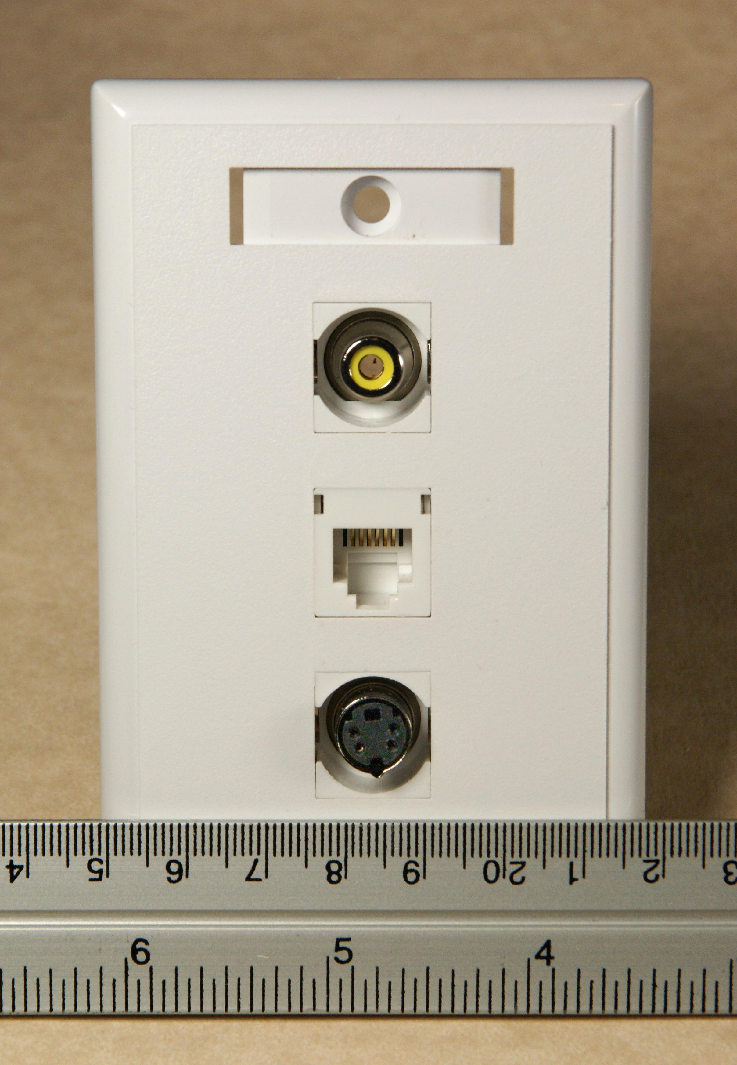 A 3-port keystone wall plate (single gang) which has three different kinds of keystone modules installed.